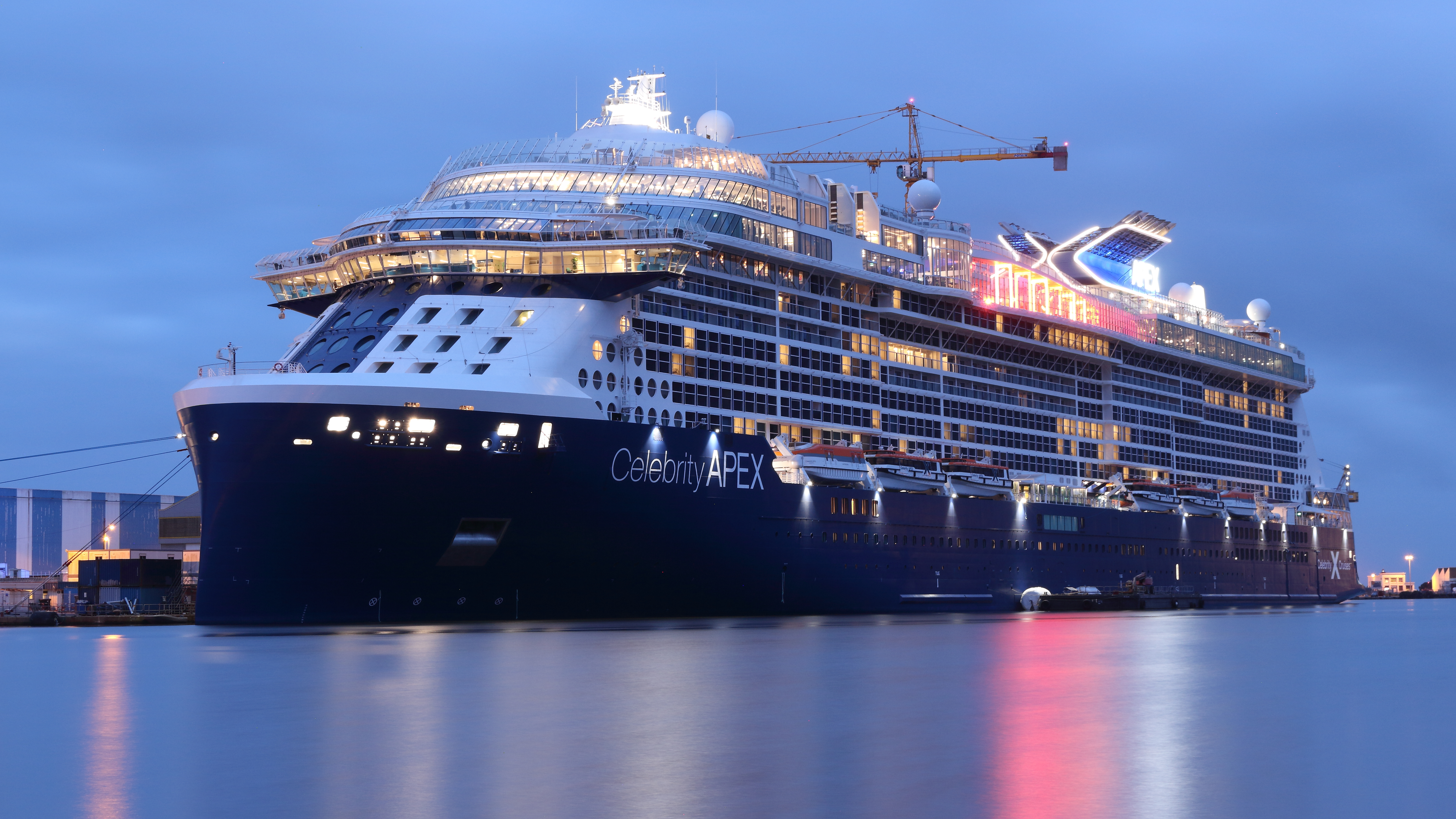 Celebrity Apex at St Nazaire shipyard on March 14, 2020